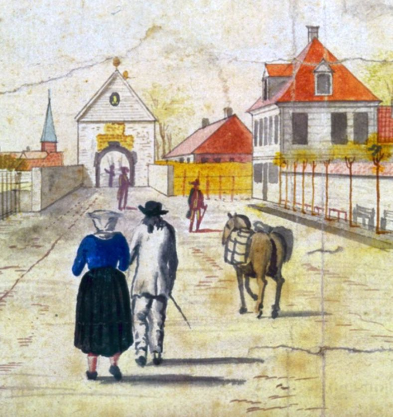 Detail of a prospect by Johan Georg Müller of farmers from Fana entering the city gate Stadsporten, Bergen, Norway (1796)